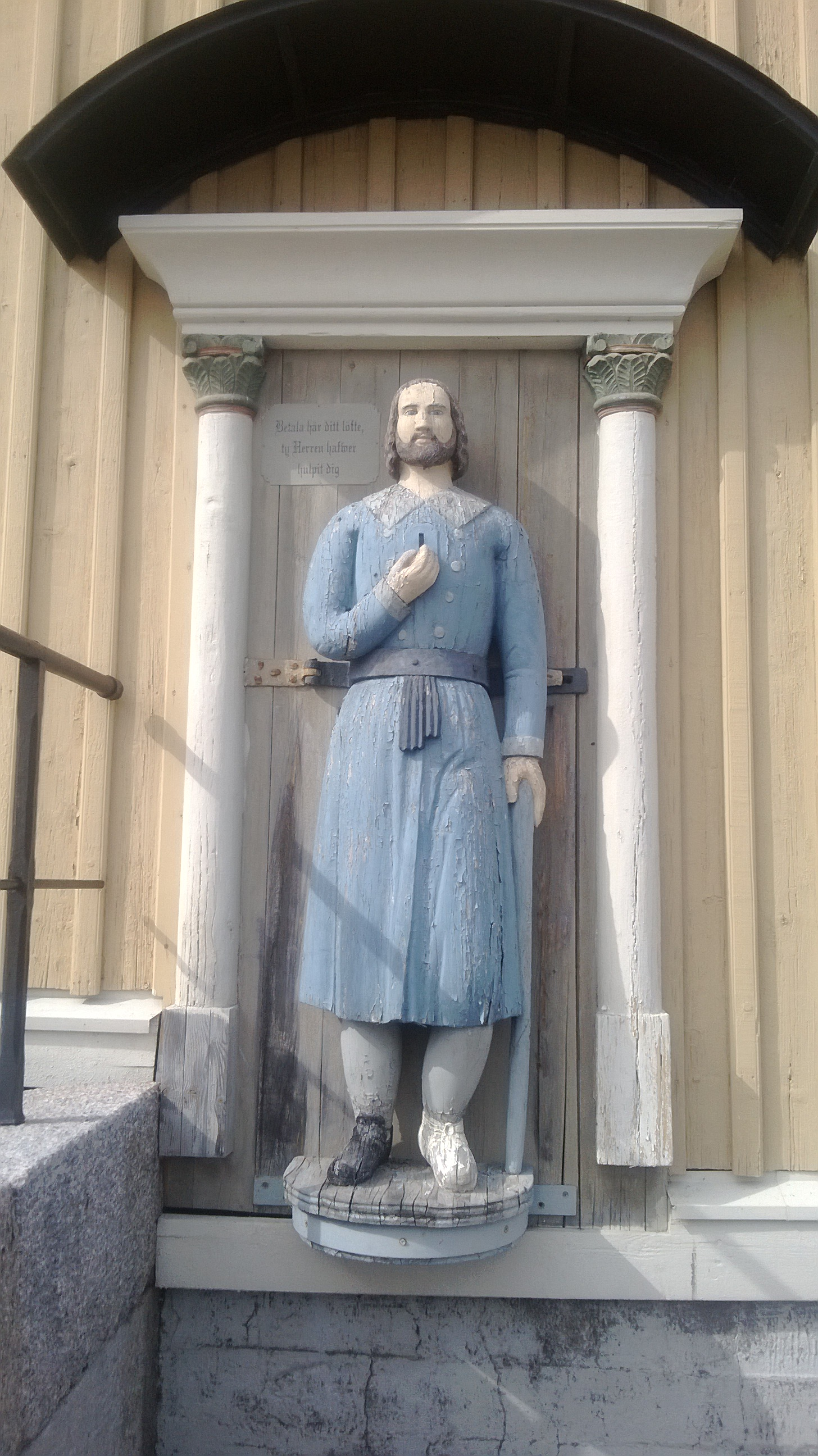 Poor man statue, representing a soldier in the War of Finland